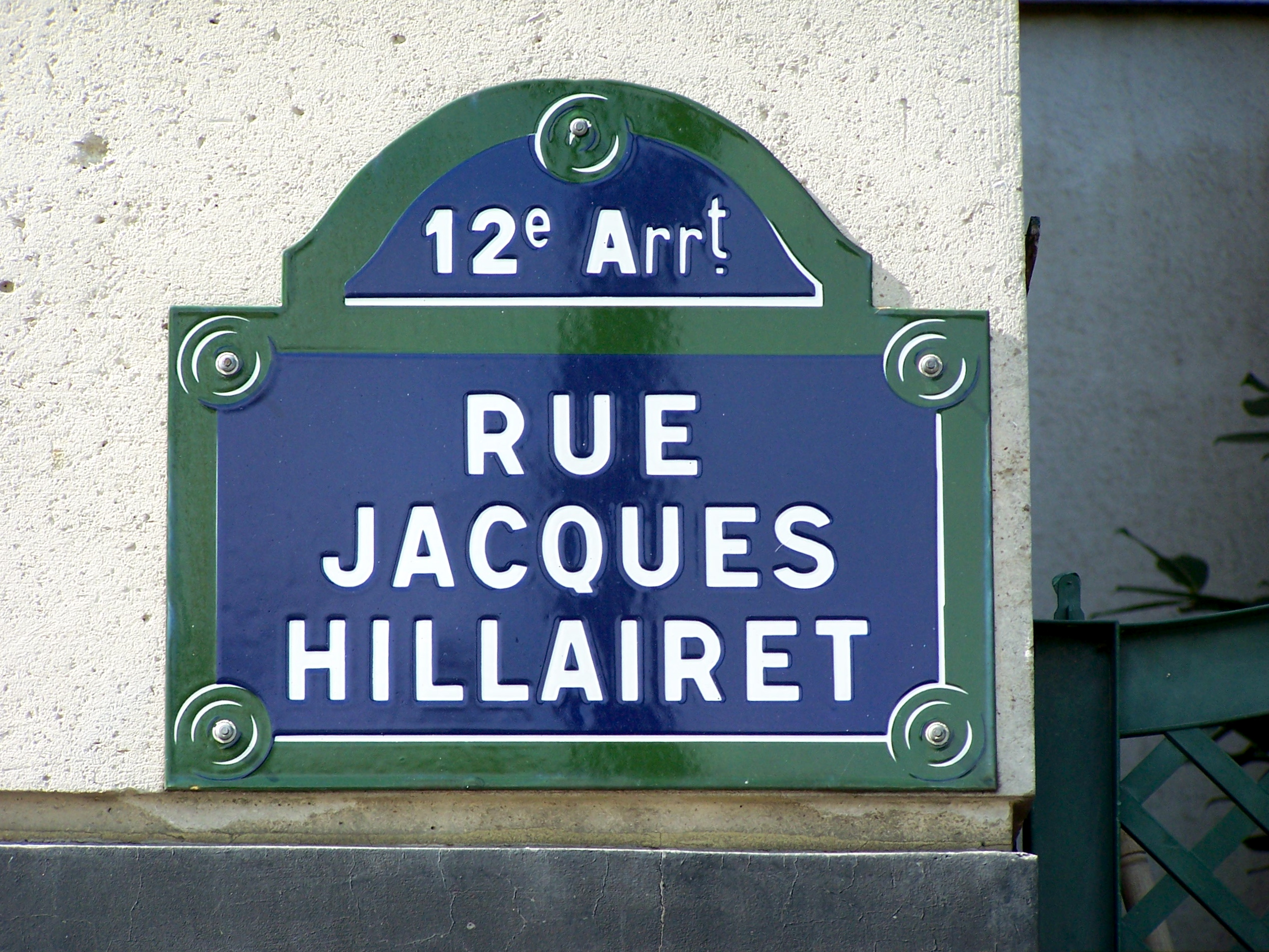 Plaque of the rue Jacques-Hillairet in Paris